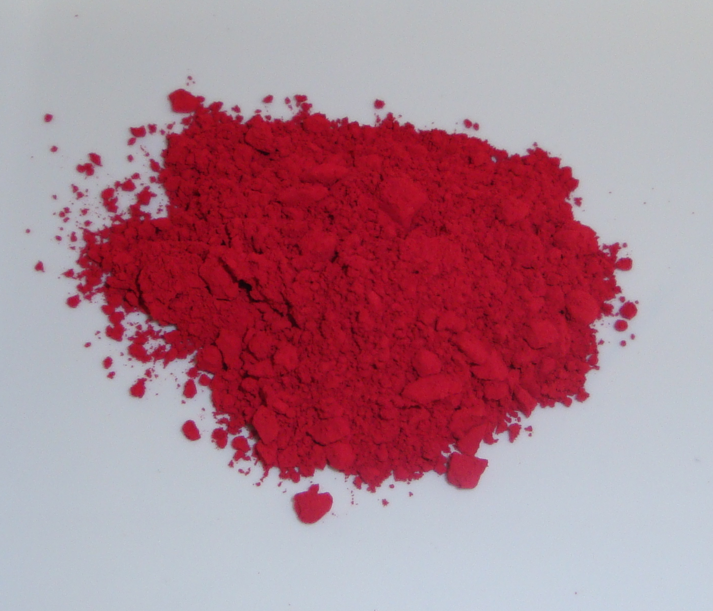 Unsubstituted quinacridone, C.I. Pigment Violet 19, gamma modification